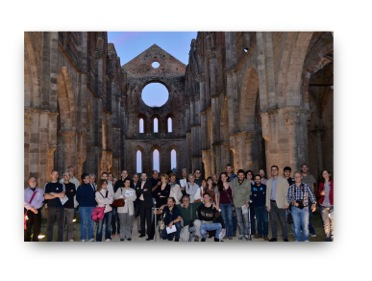 excursion to the San Galgano Abby during the XII CICAP National Conference in 2012